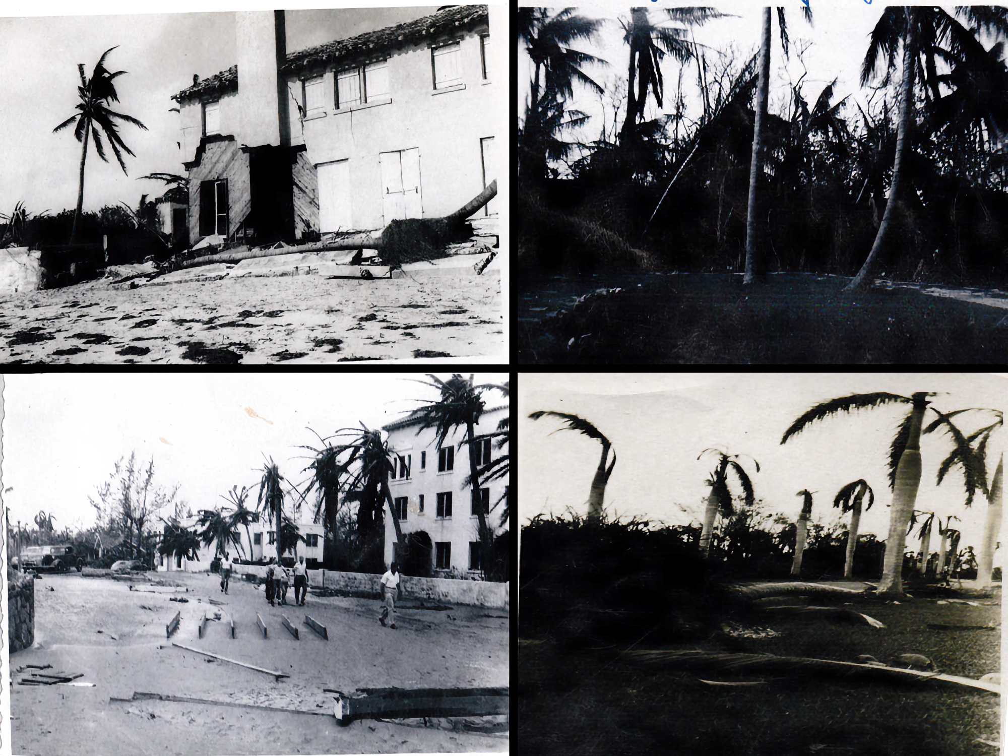 Collage of photographs taken in Delray Beach, Florida, showing damage from hurricane of September 17, 1947. Courtesy of the Delray Beach Historical Society and used with its permission.